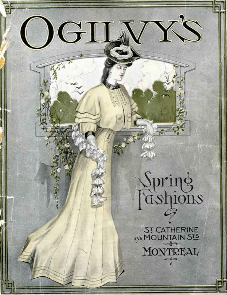 Jas. A. Ogily & Sons mail order catalogue, Montreal, spring 1906.